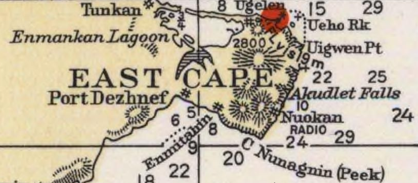 Detail of 1937 USCGS Bering Sea ahowing Cape Dezhnev aka East Cape with geographical features and villages marked.